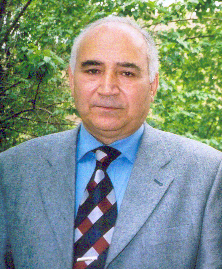 Azerbaijani tar player Ramiz Guliyev in 2007.